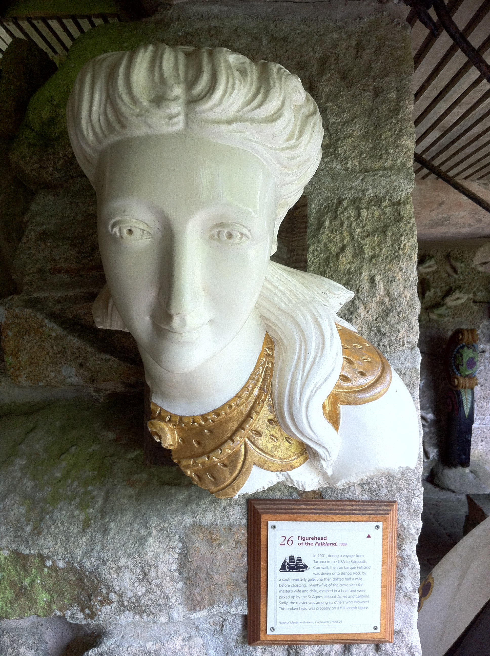 In 1901 during a voyage from Tacoma in the United States of America, to Falmouth, Cornall, the iron barque Falkland was driven onto Bishop Rock by a south-westerly gale. She then drifted half a mile before capsizing. In the Valhalla Museum in Tresco Abbey Gardens, Isles of Scilly.